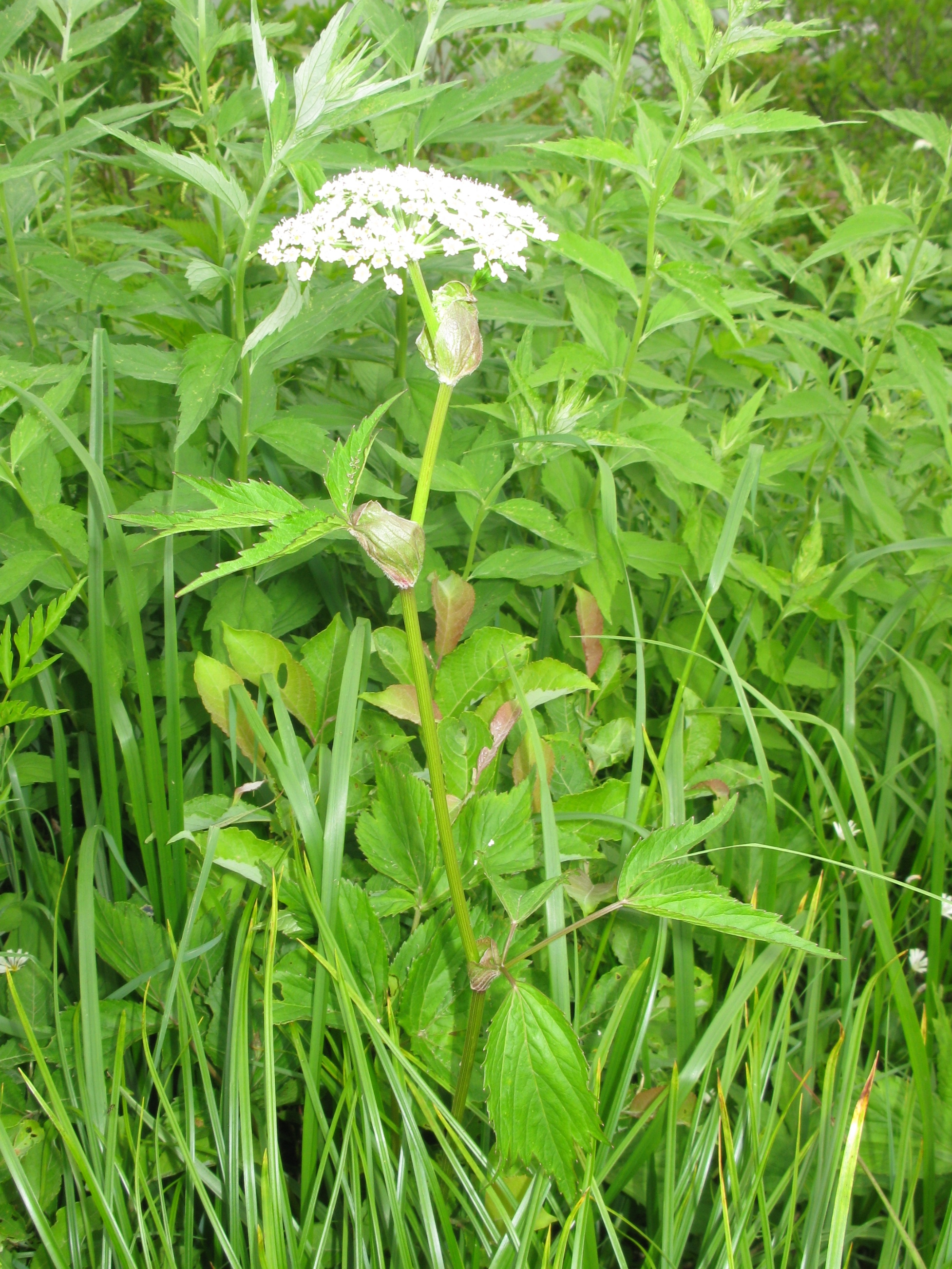 Peucedanum multivittatum,Mt. Iide, Fukushima pref., Japan